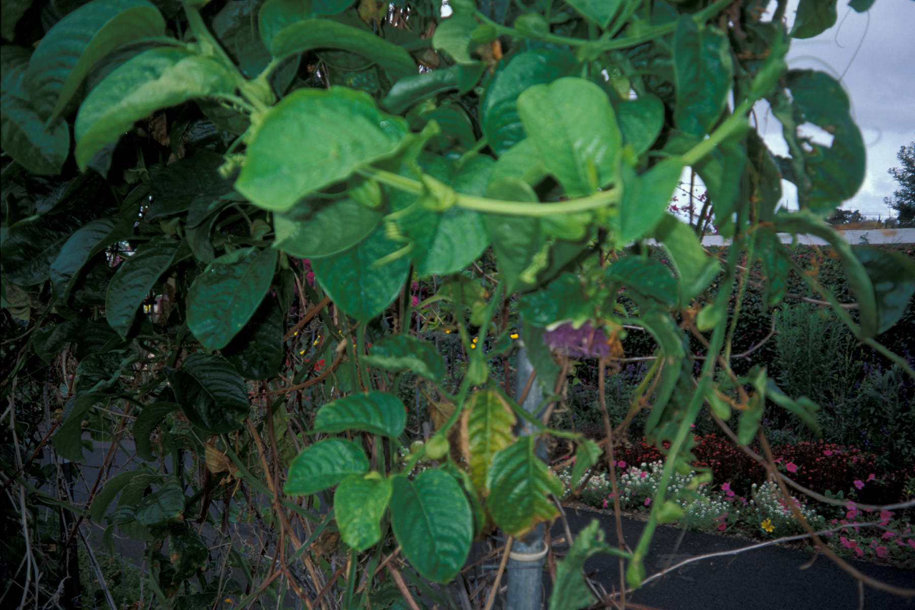 Passiflora quadrangularis (habit). Location: Maui, Enchanting Floral Gardens of Kula